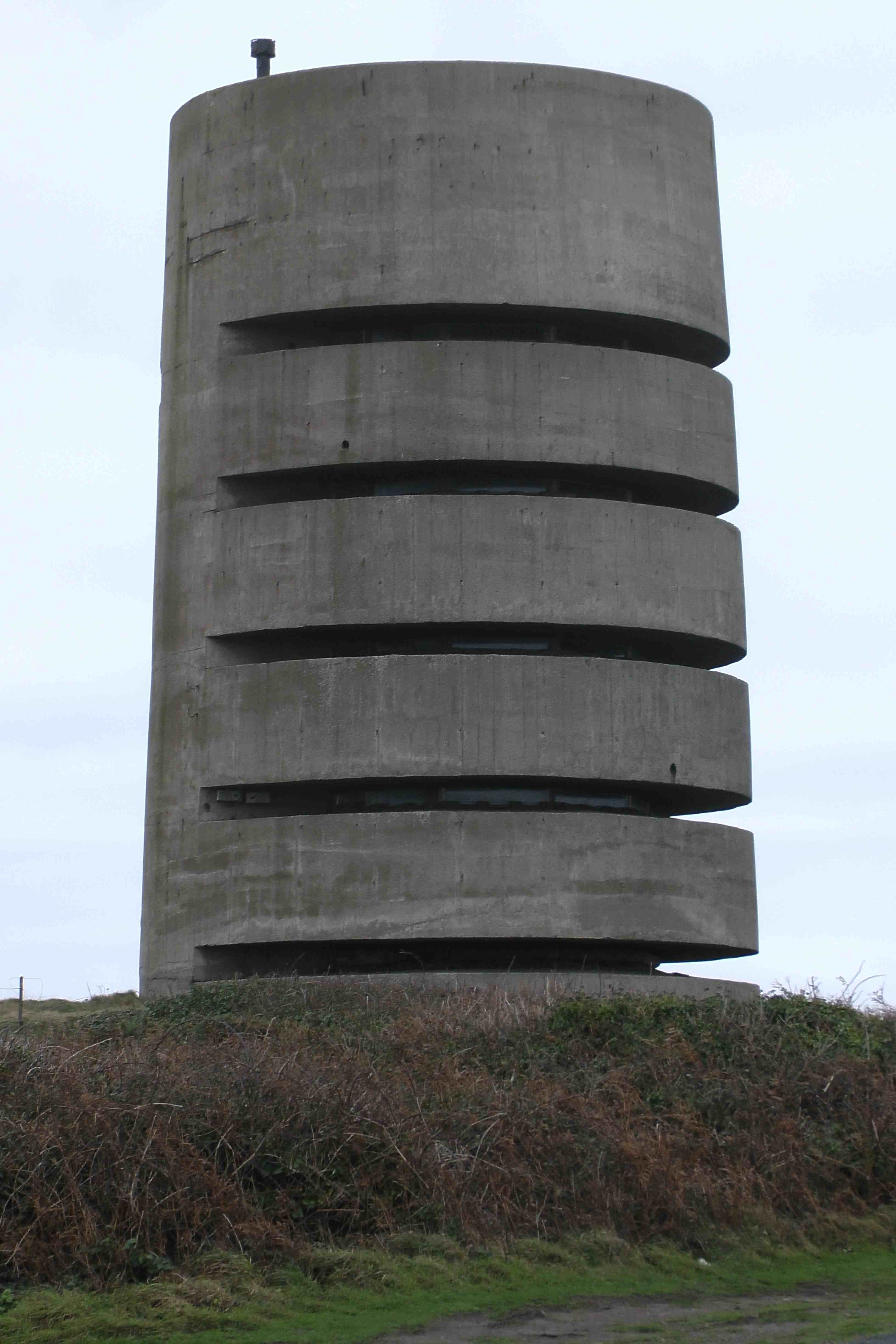 German observation tower MP 3 Guernsey